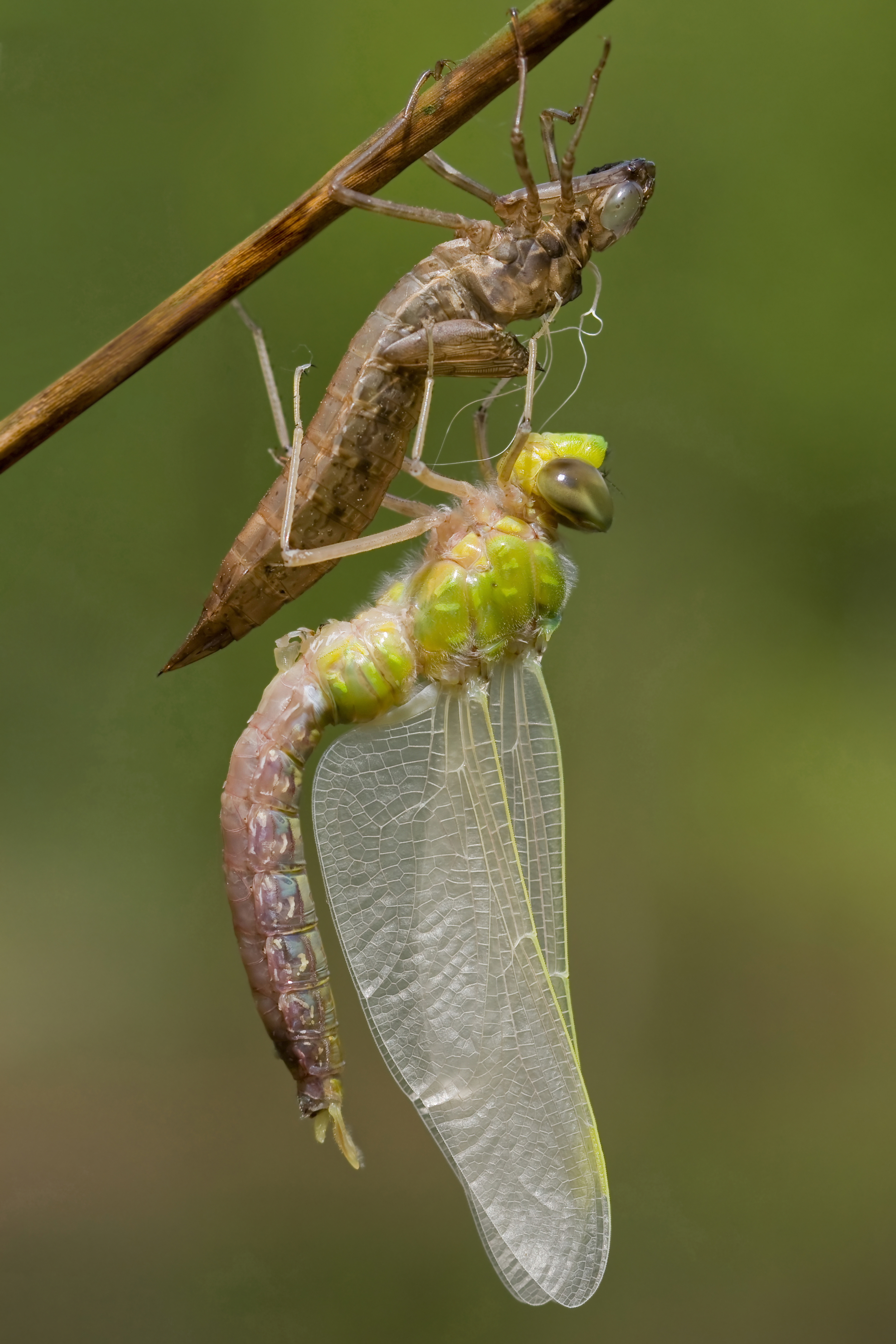 Teneral male Emperor (Anax imperator) in the Ahlenmoor, a peatland in northern Lower Saxony, Germany. The dragonfly still clings to the Exuvie from which it has just escaped. The wings are already unfolded completely, are however hardened not yet, the Abdomen must still stretch itself on its final size, the drawing is not developed yet.